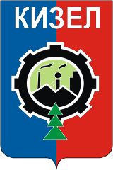 Kizel (Perm krai), soviet coat of arms